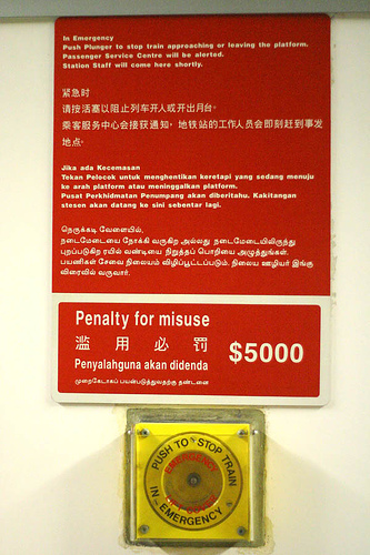 An emergency plunger on a Mass Rapid Transit station platform to alert staff to prevent a train from arriving at or leaving the station, together with a sign explaining in the four official languages of Singapore the use of the plunger and warning of the consequences of misuse (a fine of up to S$5,000).